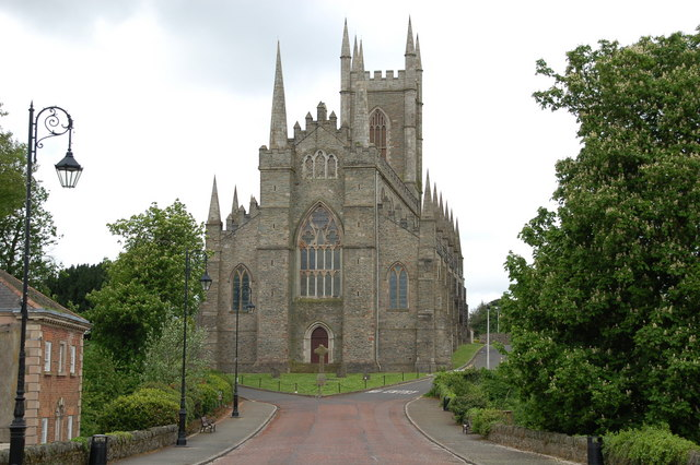 Down Cathedral. As cathedrals go, Down Cathedral is quite small but its connection with St Patrick and it history of building, destruction and rebuilding gives it a special air. It is said to have its origins in the medieval period but was in ruins when visited by Wesley in 1778. Restoration started in 1790 but consecration did not take place until 1818.